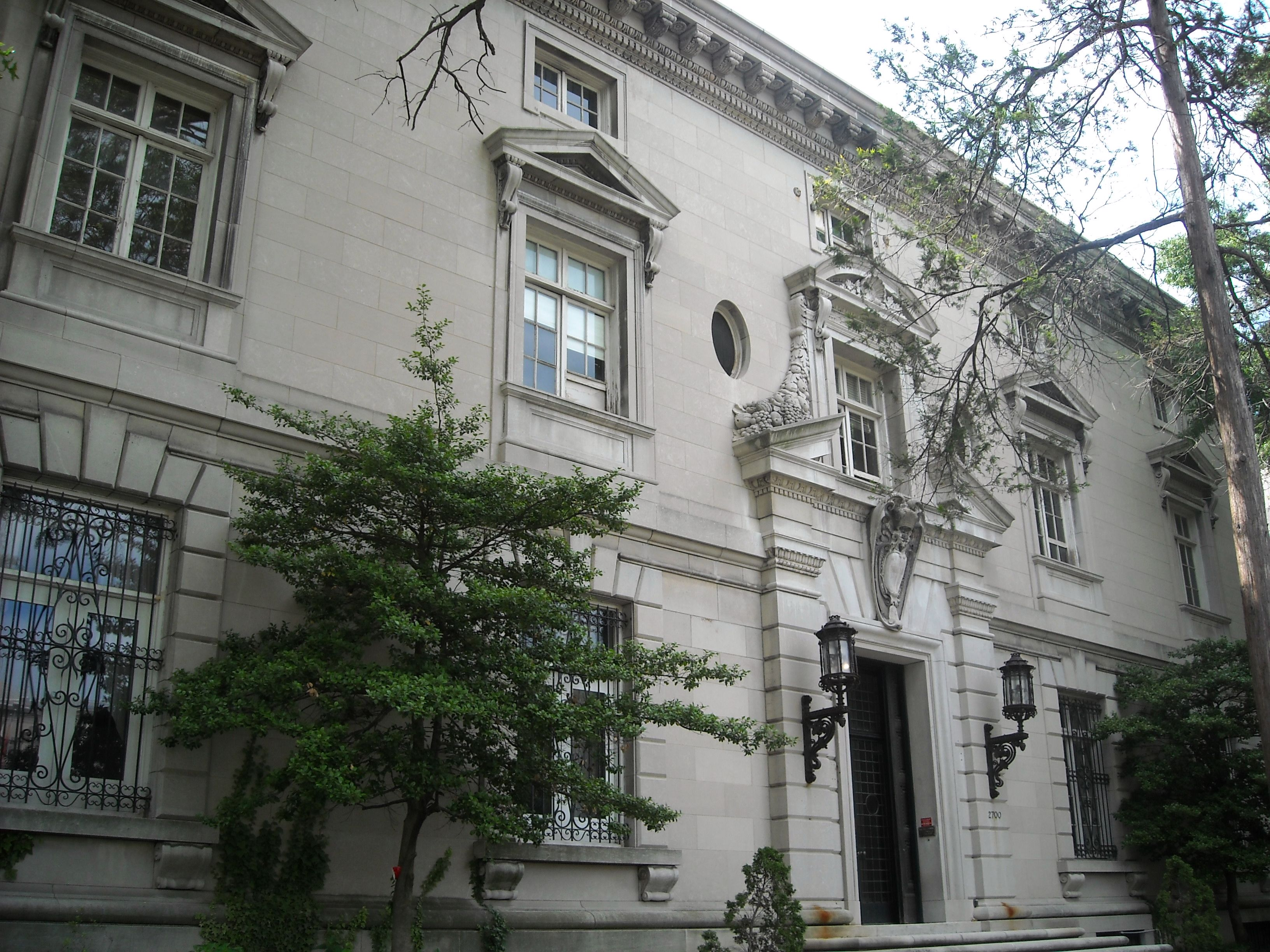 The former Italian embassy and chancery located at 2700 16th Street, NW in Washington, D.C. The Neo-Renaissance building was completed in 1925 and designed by architects Whiteny Warren & Charles D. Wetmore (their designs include Grand Central Terminal in New York City. The first Italian ambassador to reside in the home was Giacomo De Martino. In 1977, Ambassador Roberto Gaja moved the residence to Frienze House in the Forest Hills neighborhood. The 16th Street building continued to serve as the chancery until 2002 when it was purchased by developers. Their plans to convert the building into condominiums is being challenged by the city's Historic Preservation Office.